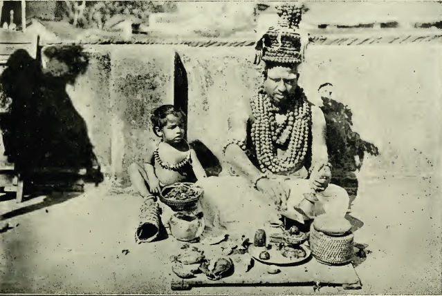 Smartha Brahman (Brahacharnam) doing Siva worship